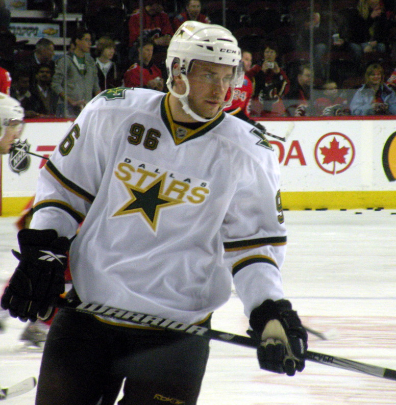 Dallas Stars rookie Fabian Brunnstrom during warm-up prior to a National Hockey League game against the Calgary Flames, in Calgary.